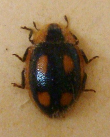 A flax ladybird (Cassiculus venustus) card mounted, at the Landcare Research arthropod collection at Tamaki, Auckland, New Zealand. This is a cropped version; see the file history for the broader view.